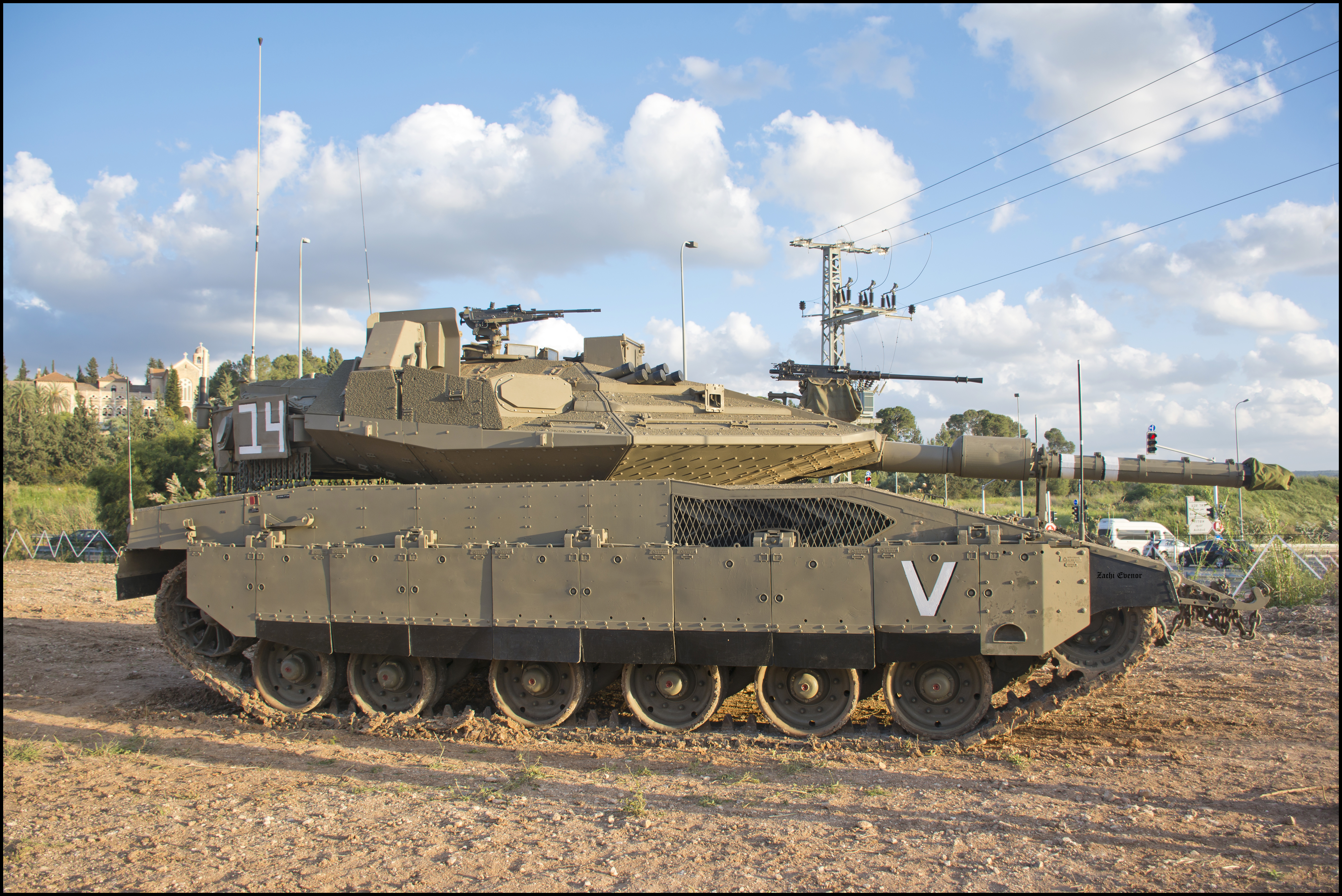 Merkava Mk 4M Windbreaker main battle tank, Israel